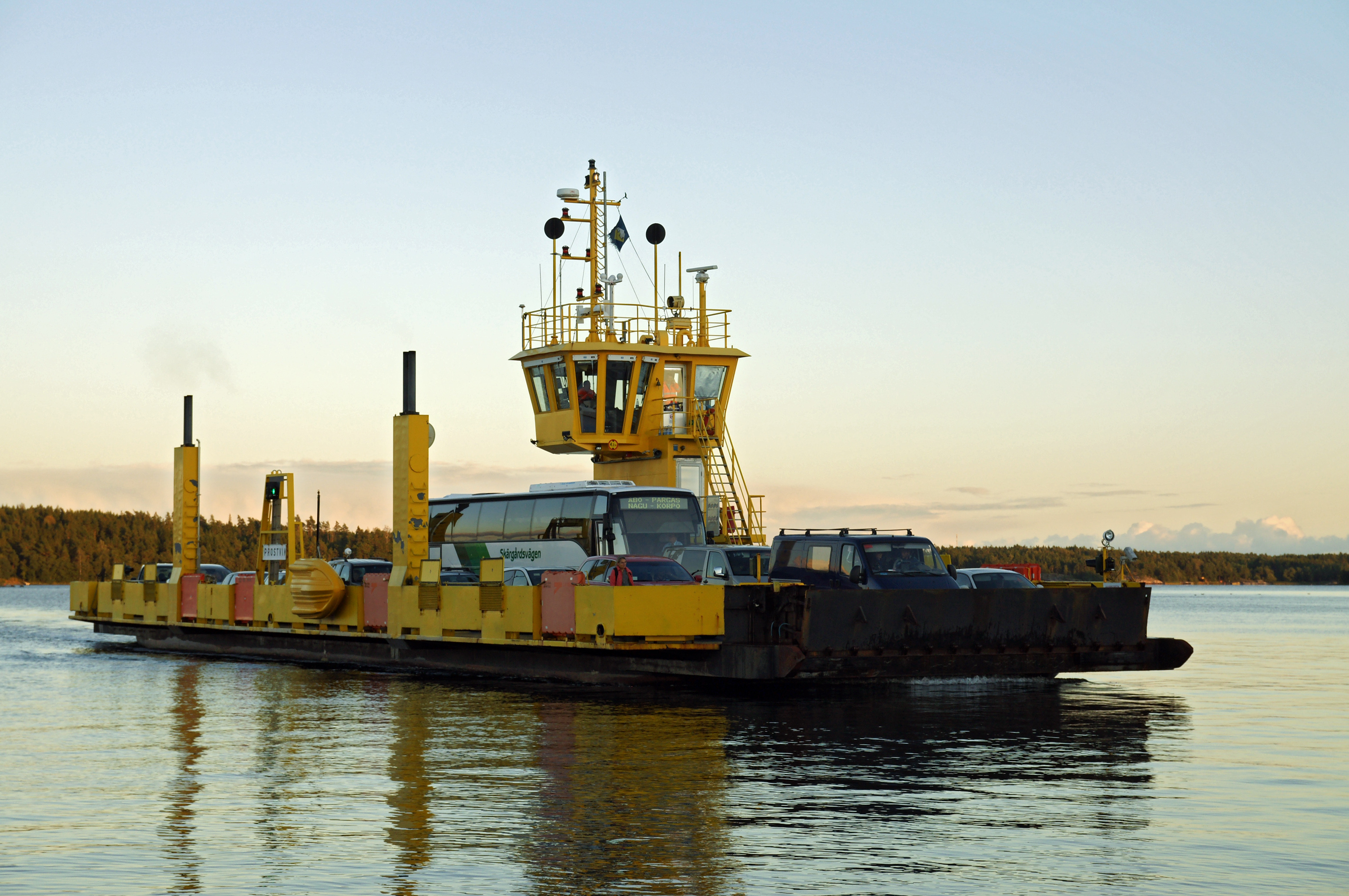 L/A Prostvik.